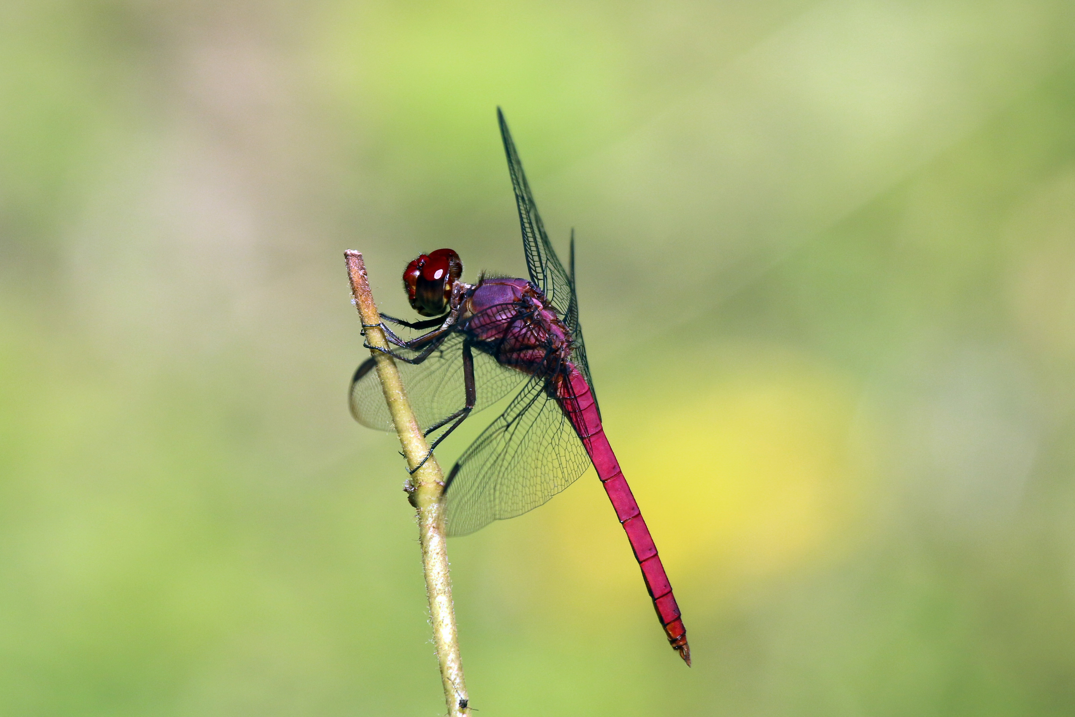 Carmine skimmer (Orthemis discolor) male, Tobago